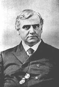 Phillips Brooks (1835-1893)